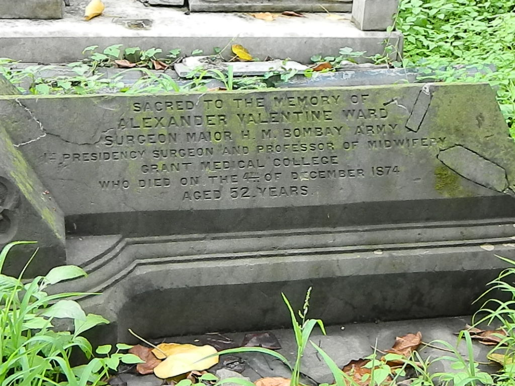 Alexander Valentine Ward, Early Professor of Midwifery of Grant College